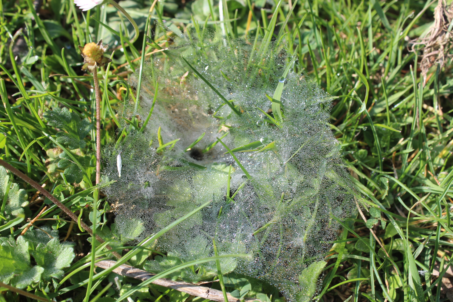 Ground Spider Web